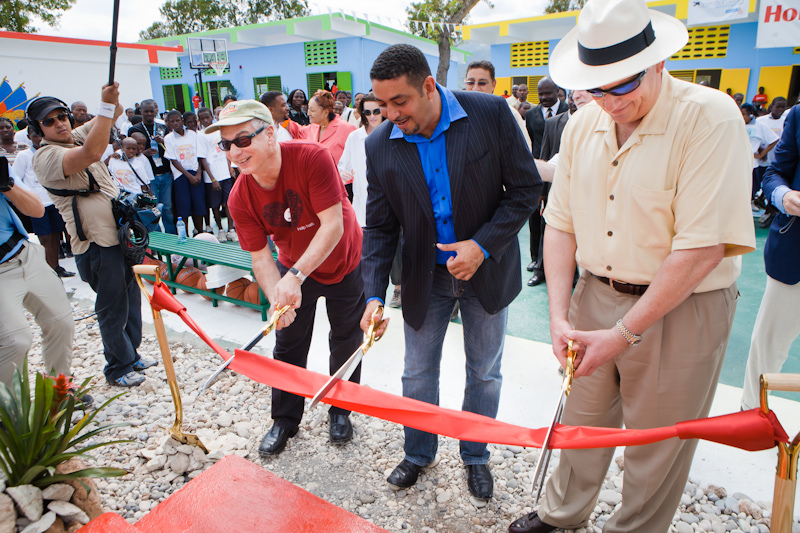 Honeywell Chairman and CEO Dave Cote and Operation USA President and CEO Richard Walden cut the ribbon to open the Ecole Nationale Jacob Martin Henriquez school in Jacmel, Haiti on March 11, 2011. The nine-building, 40,000 square foot complex, built through a partnership between Honeywell and Operation USA, provides education and free meals to more than 600 local children following the 2010 Haiti earthquake.